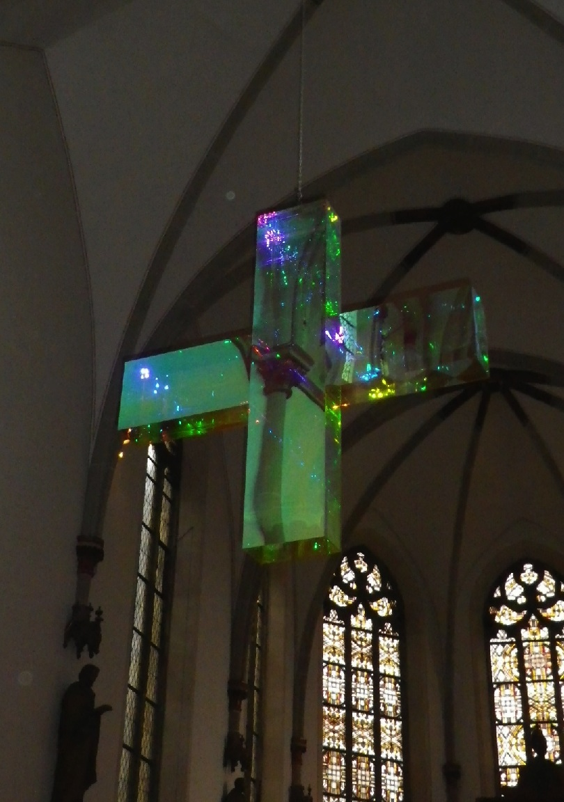 Lichtkreuz in der St. Mauritz-Kirche (Münster)